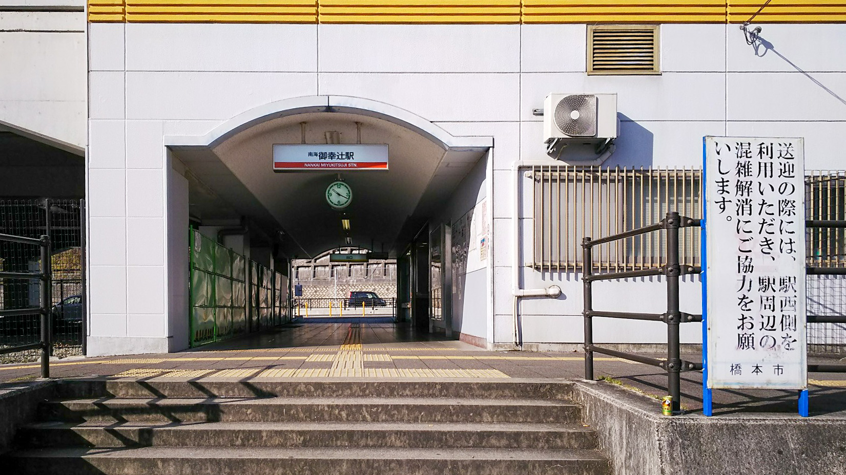 The east entrance to Miyukitsuji Station in Wakayama Prefecture, Japan